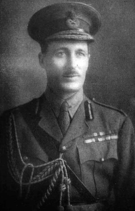 Brigadier General Herbert Hart, in "The Official History of the New Zealand Rifle Brigade", by W. S. Austin (1871-1931). Published 1924 by L. T. Watkins Limited. The New Zealand Electronic Text Collection.